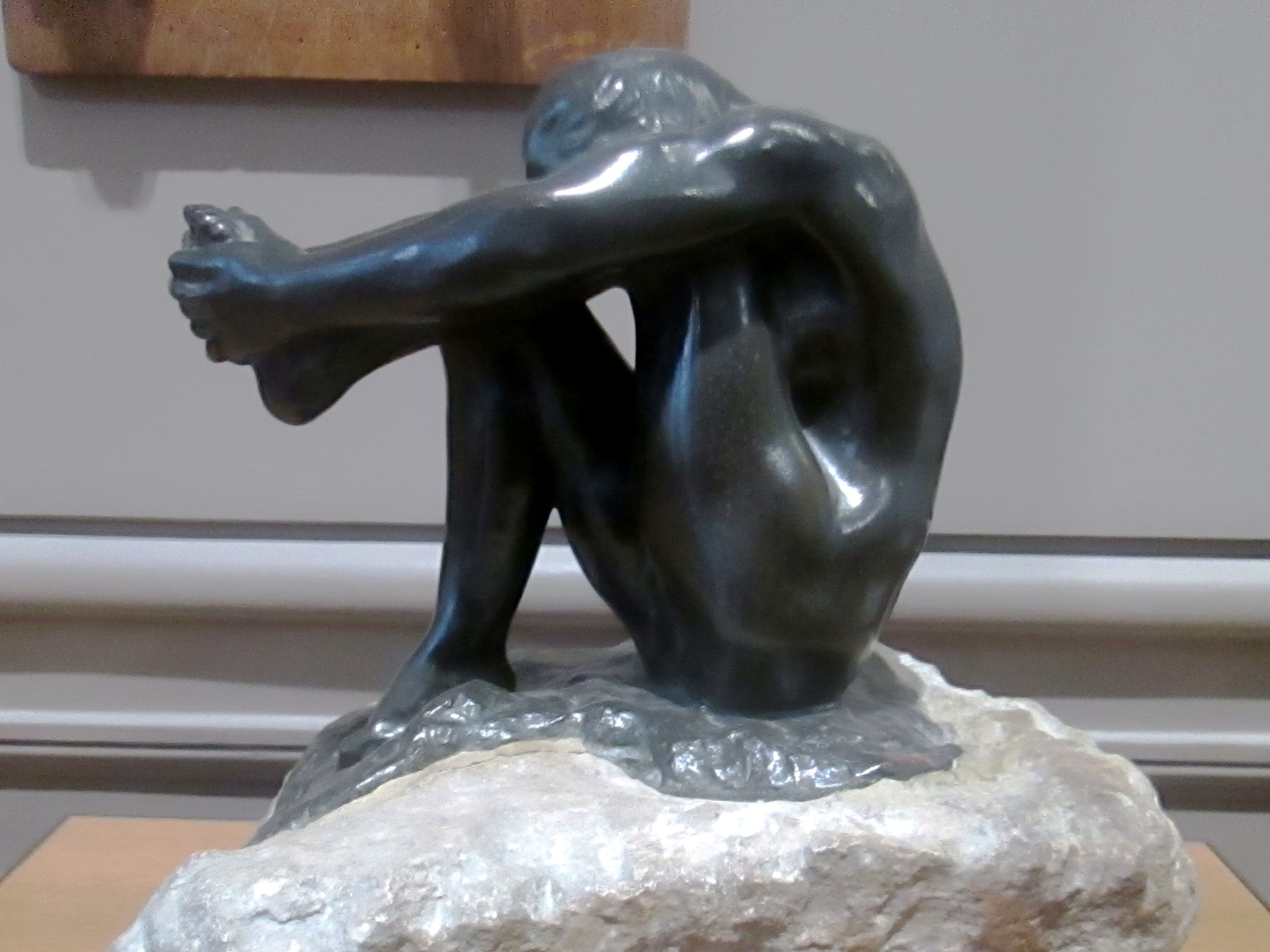 Le Désespoir ("Despair"), a bronze statuette mounted on a stone block, located in the Musée Rodin, was made by Auguste Rodin around 1904-04. (Source: Musée Rodin)